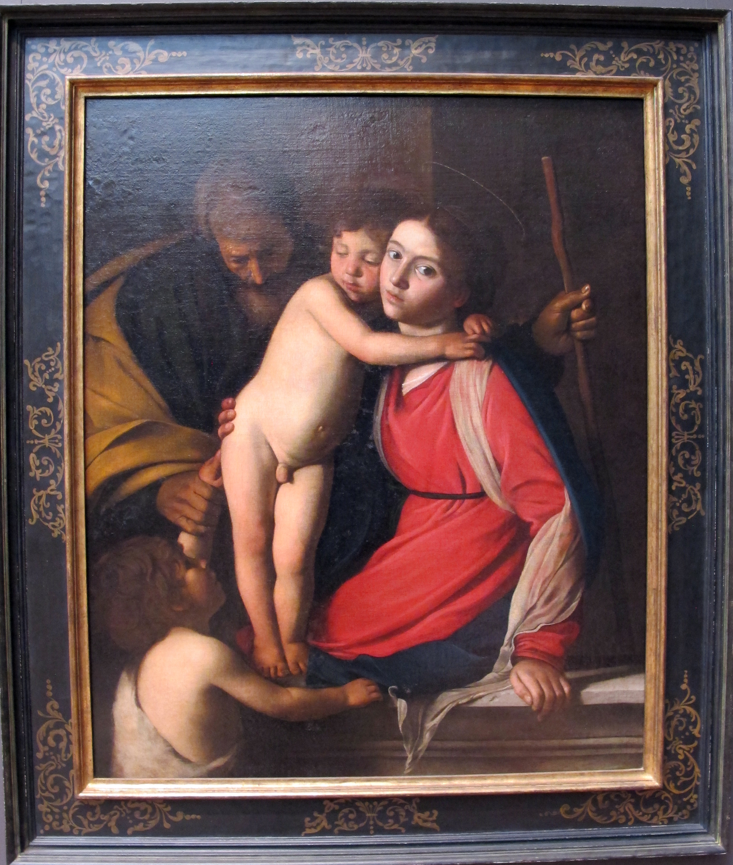 Italian Baroque paintings in the Metropolitan Museum of Art